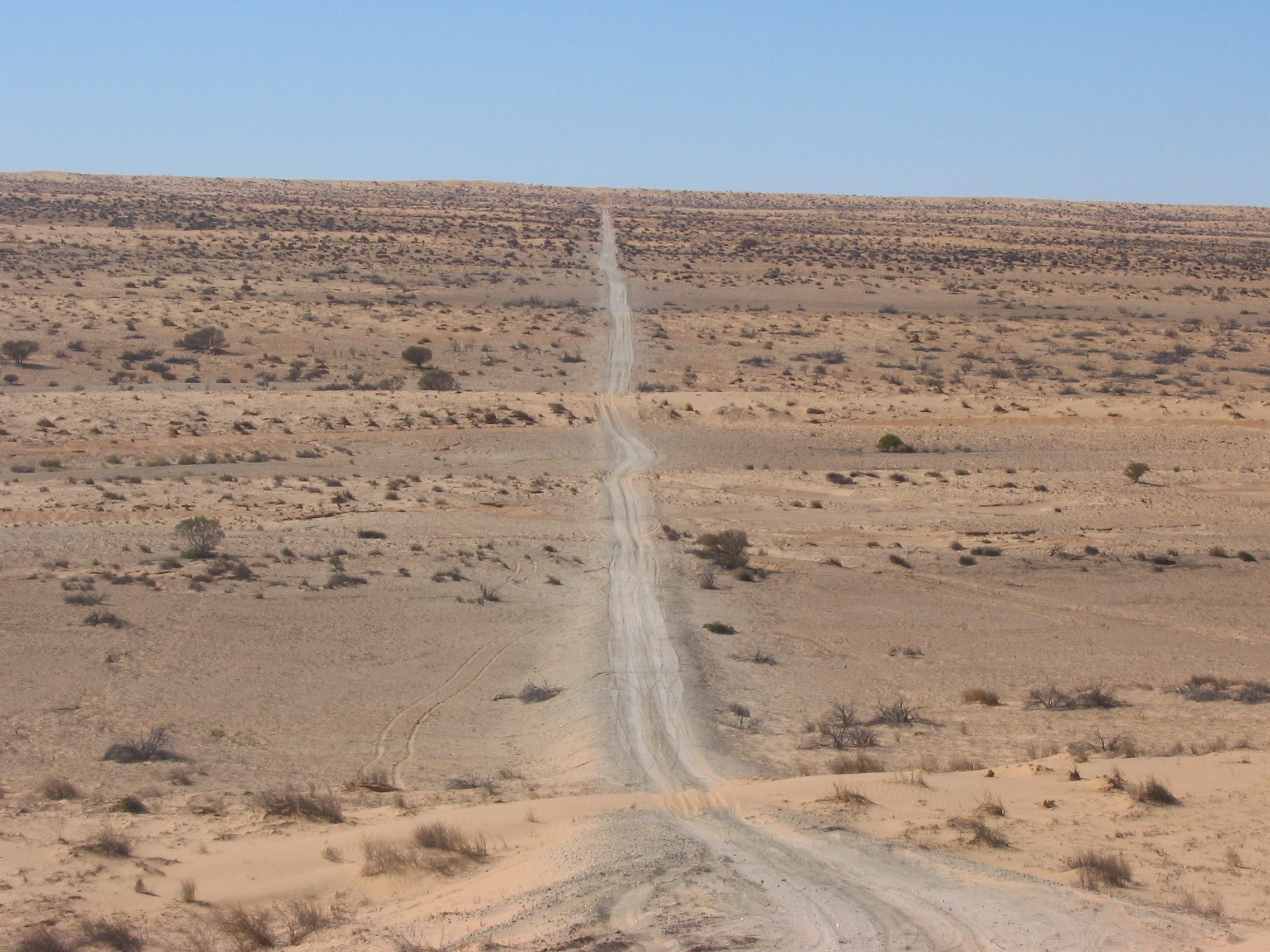 Simpson Desert